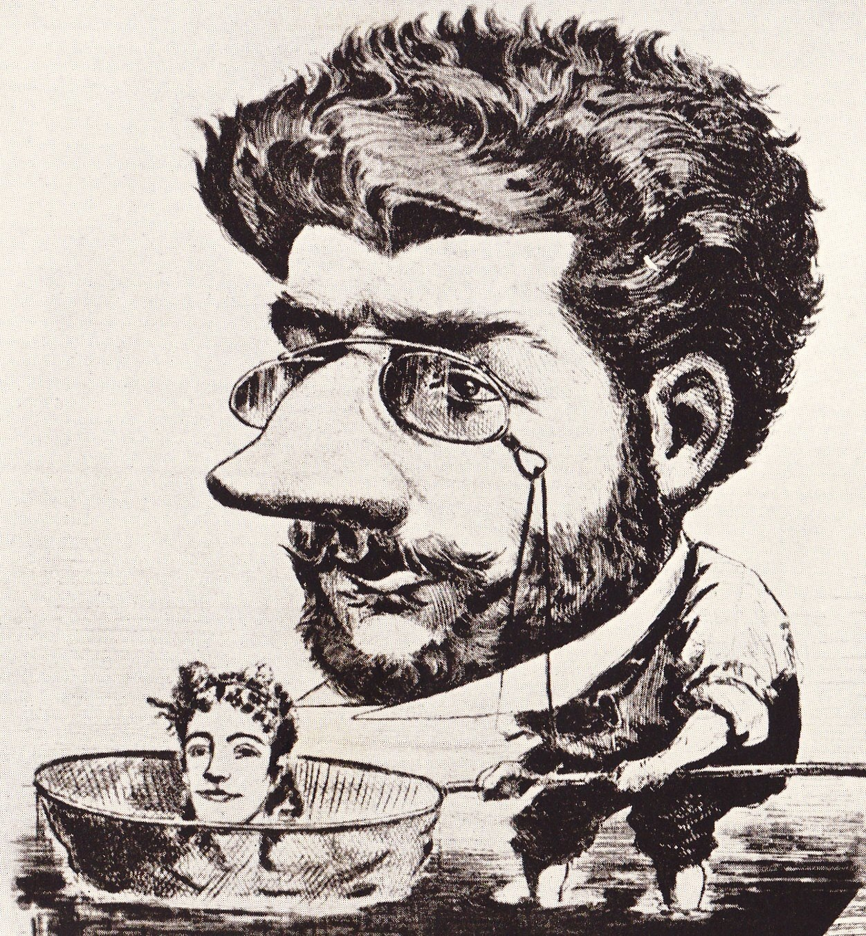 A caricature of the French composer Georges Bizet